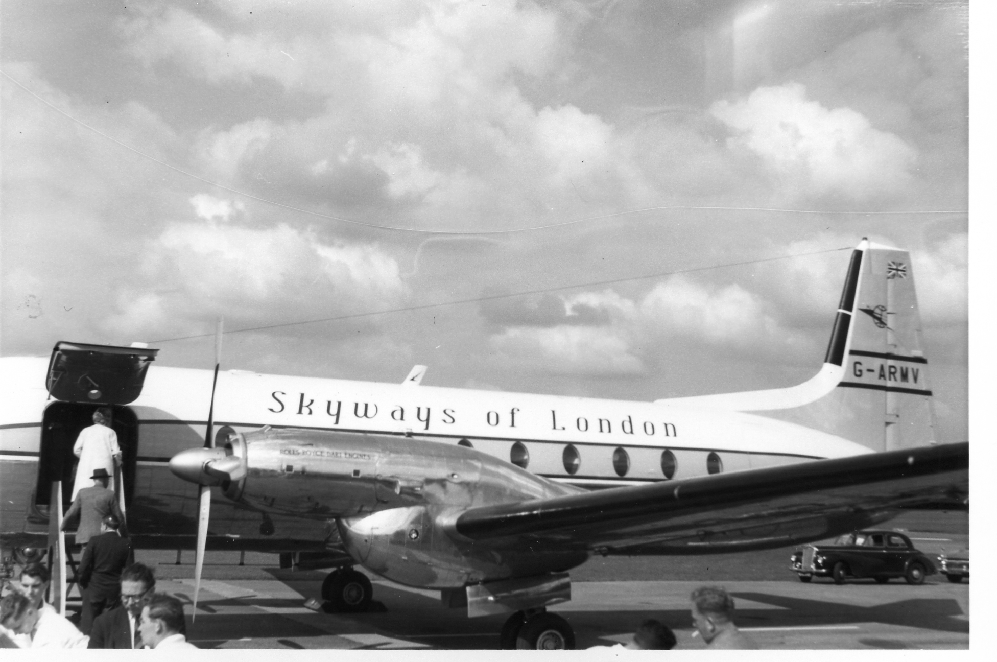 Avro 748 Srs.1 G-ARMV, in Skyways trim though not yet fully certified at the SBAC Show Farnborough 9 September 1961